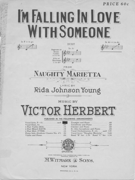 Sheet music from Naughty Marietta, 1910